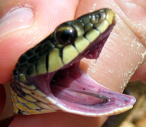 The posterior tooth of a garter snake. This picture was taken in Algonkian Park in Northern Virginia by Hannah and Christian Cantrell.